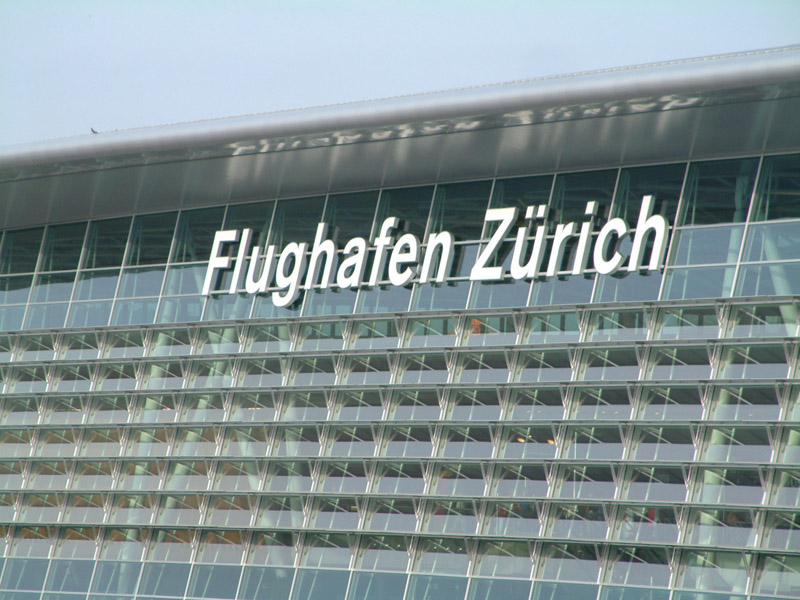 Airside Center at the Zürich Airport